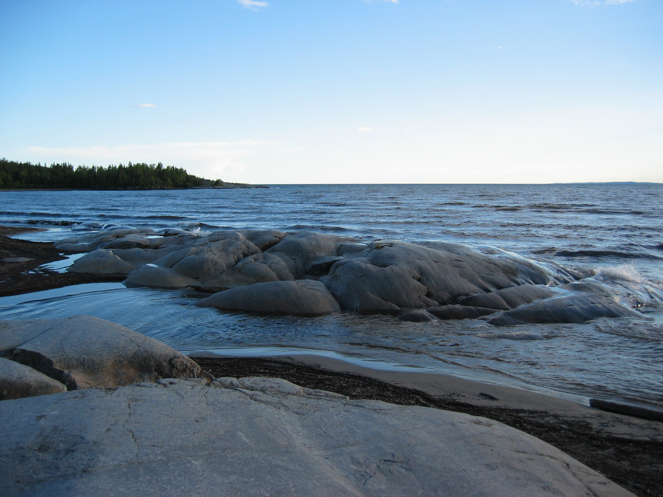 Late afternoon view of rocks on the north shore of Lake Superior at Neys Provincial Park, Ontario, Canada in June 2004